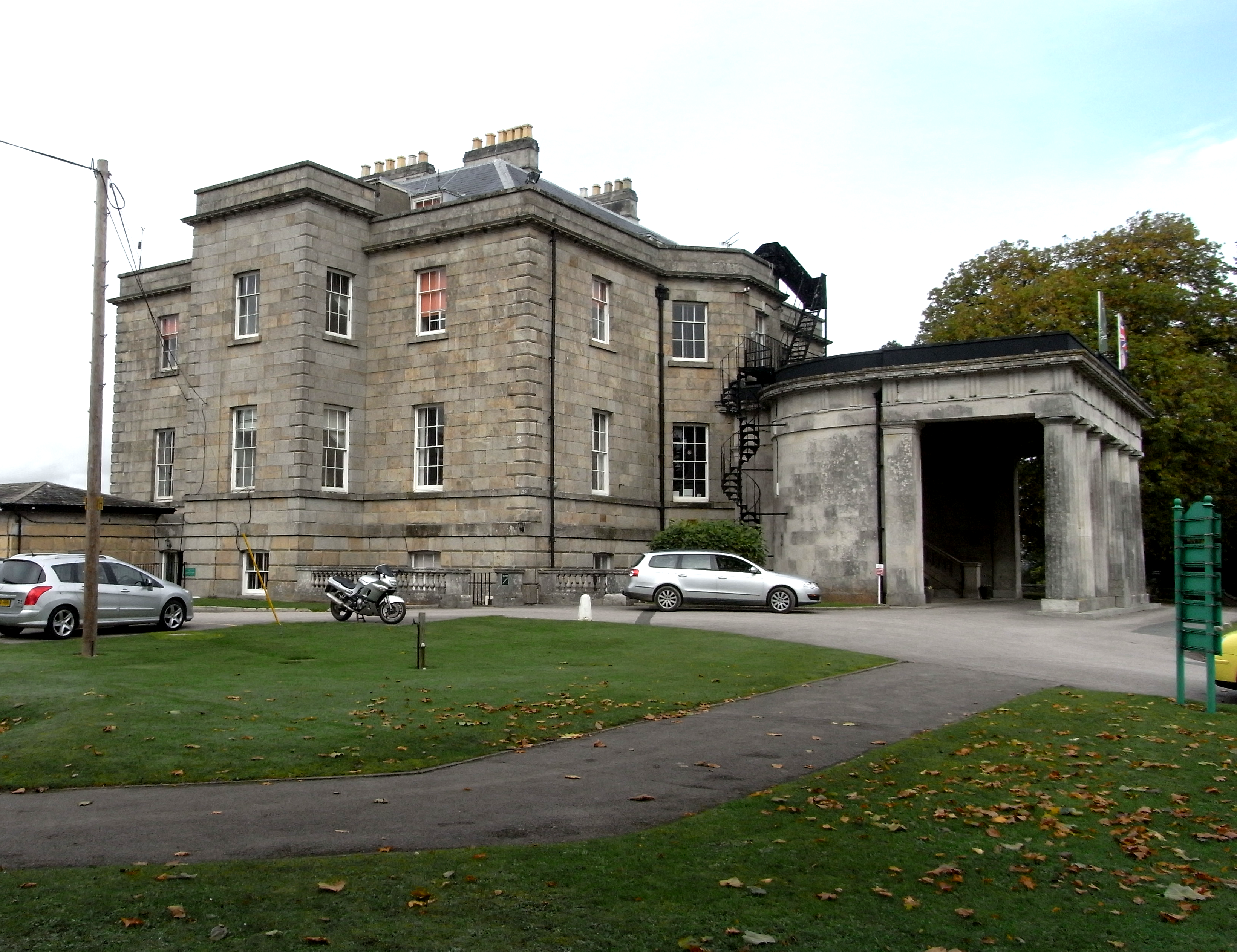 Stover House in the parish of Teigngrace, Devon. West front, showing the poprte-cochere